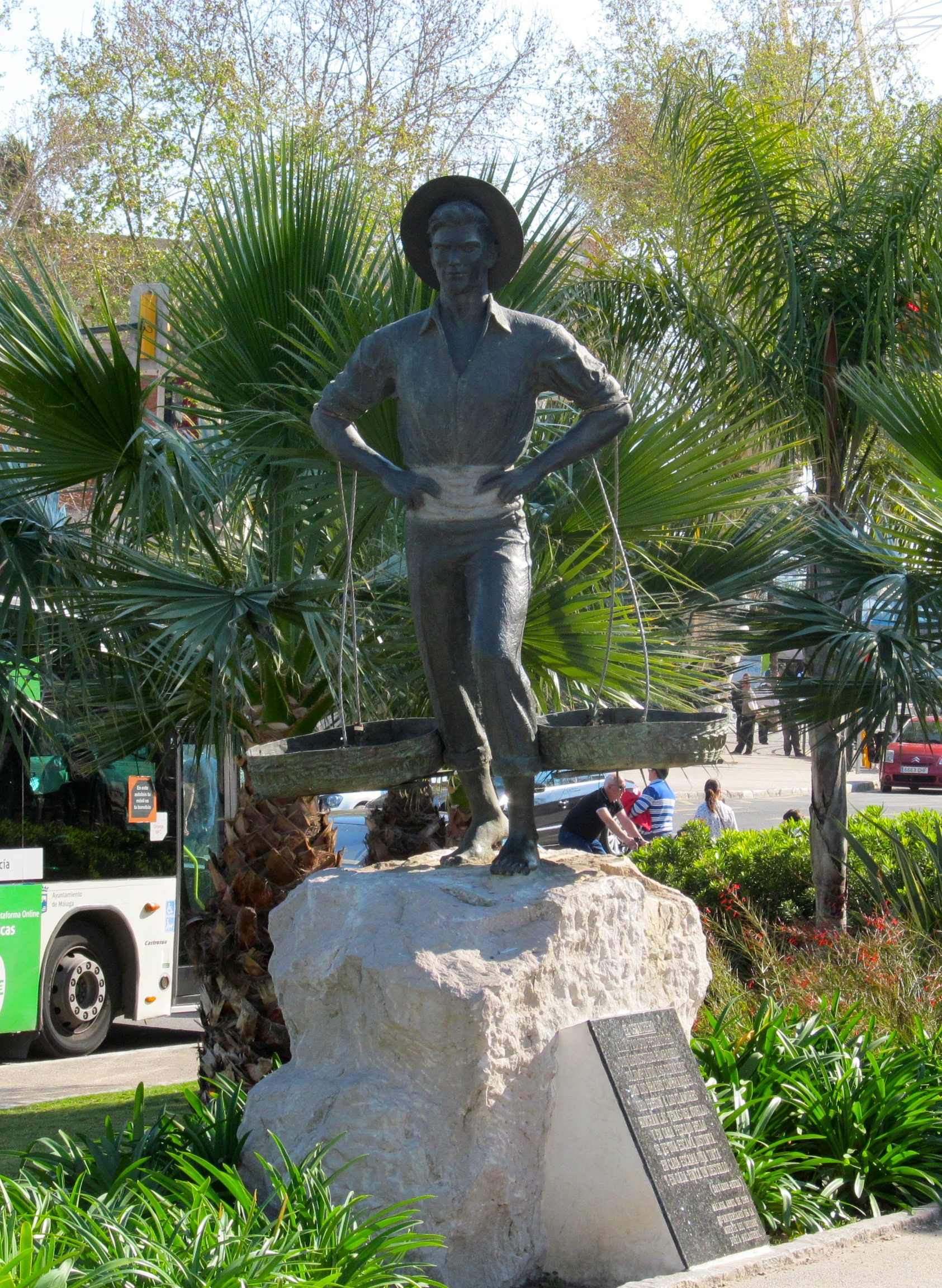 Málaga - The "'Cenachero"' is a statue in bronze by the sculptor Jaime Fernández made in 1964, located in the Málaga Park (Plaza de la Marina), Andalusia, Spain.